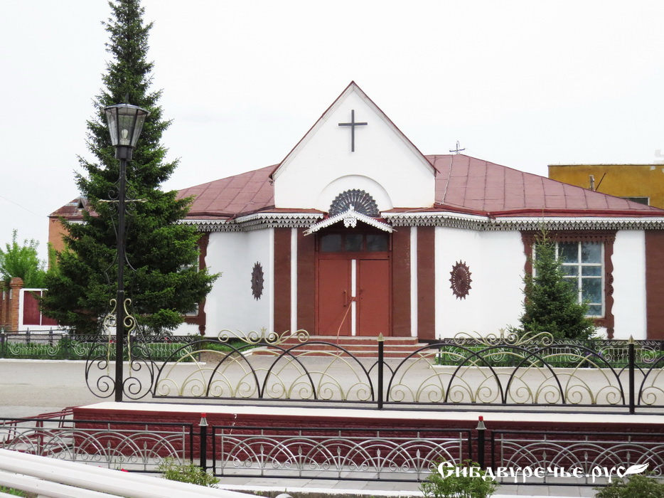 Lutherische Kirche